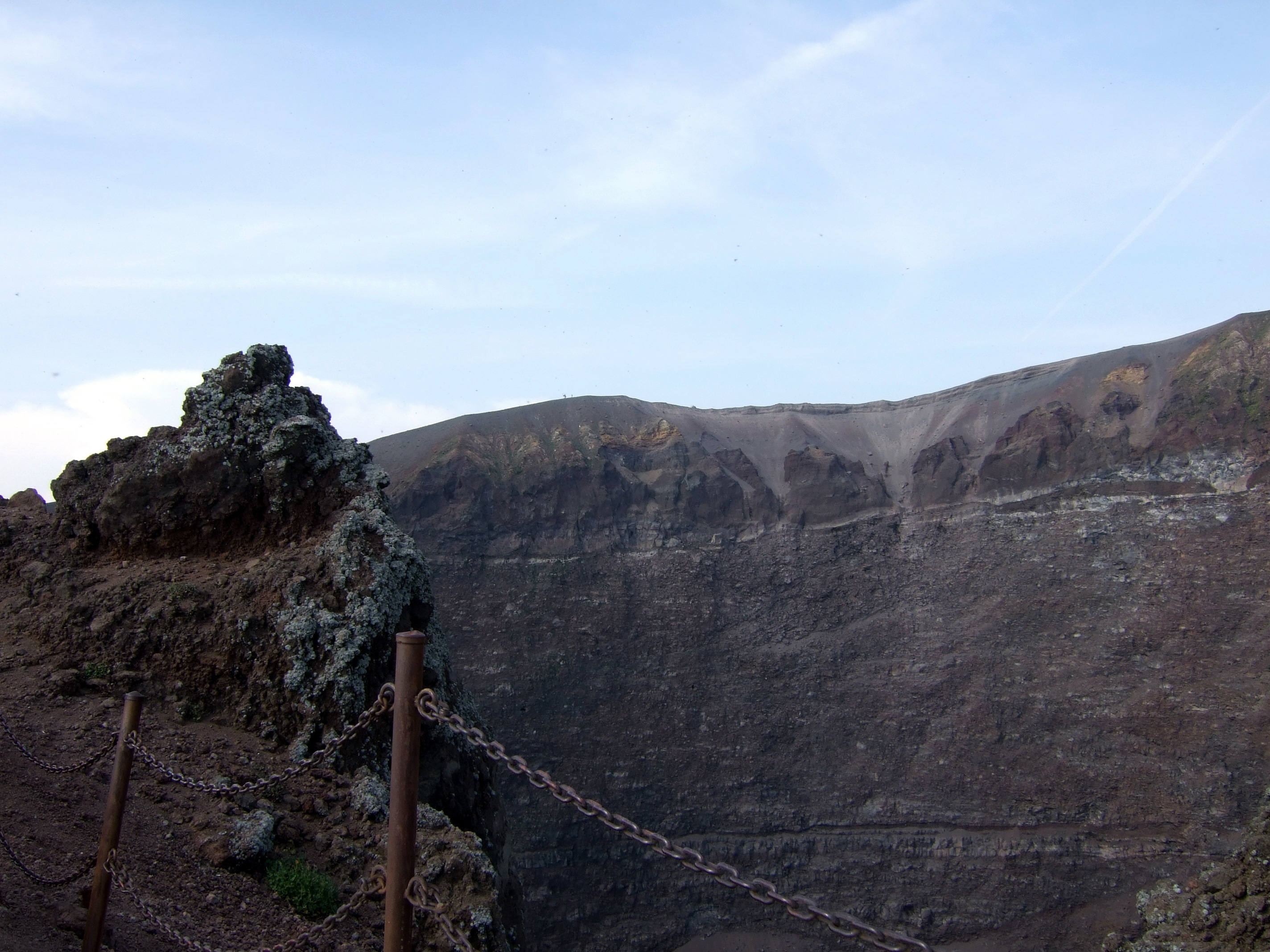 Crater of Mount Vesuvio, Italy